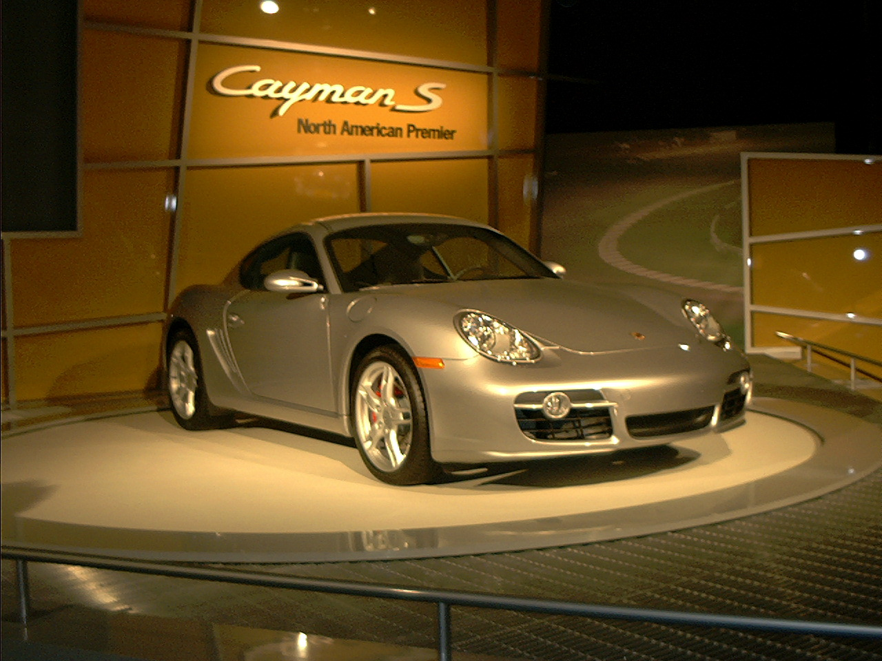 The Porsche Cayman S at the Los Angeles Auto Show